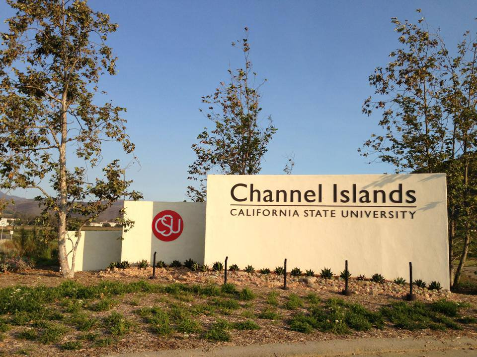 CSUCI Main Entrance Sign